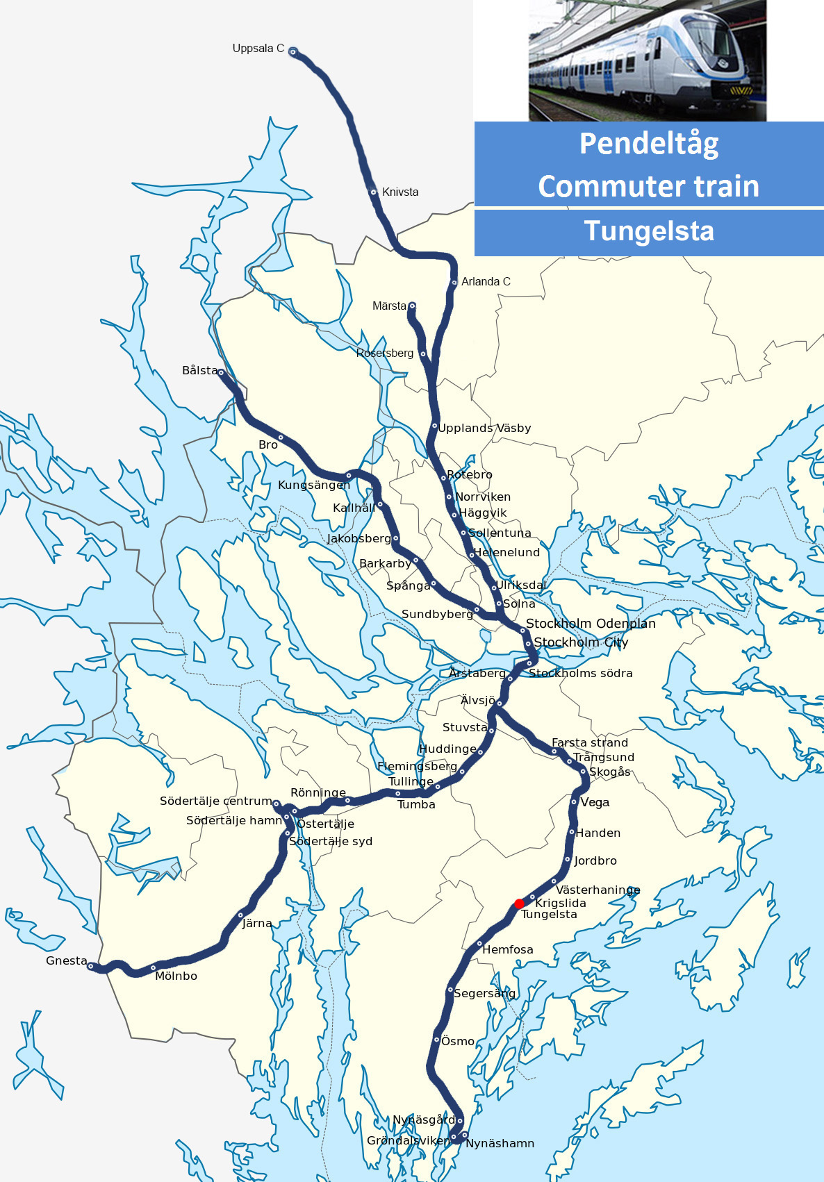 Tungelsta station map